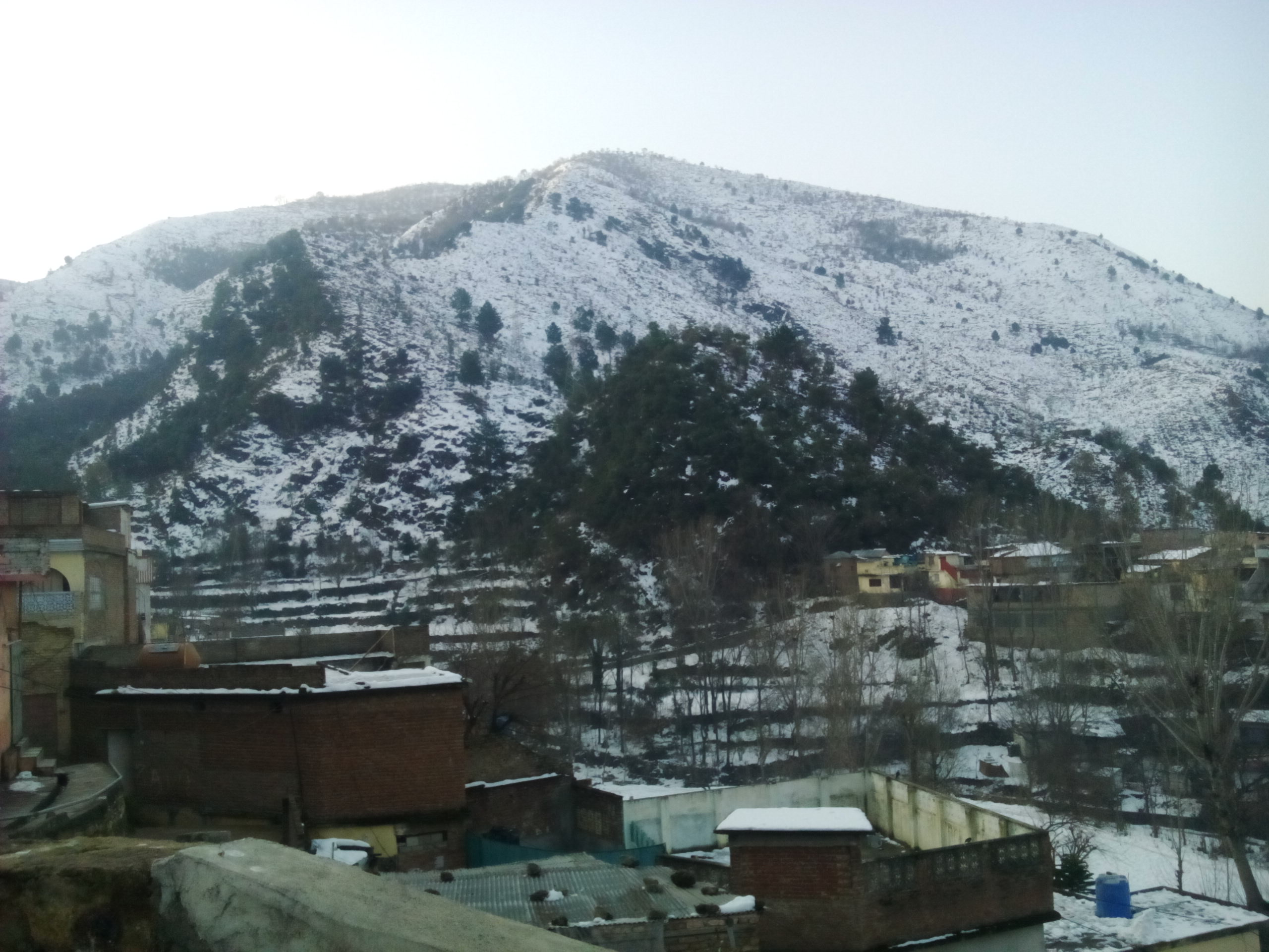 Sarban hill